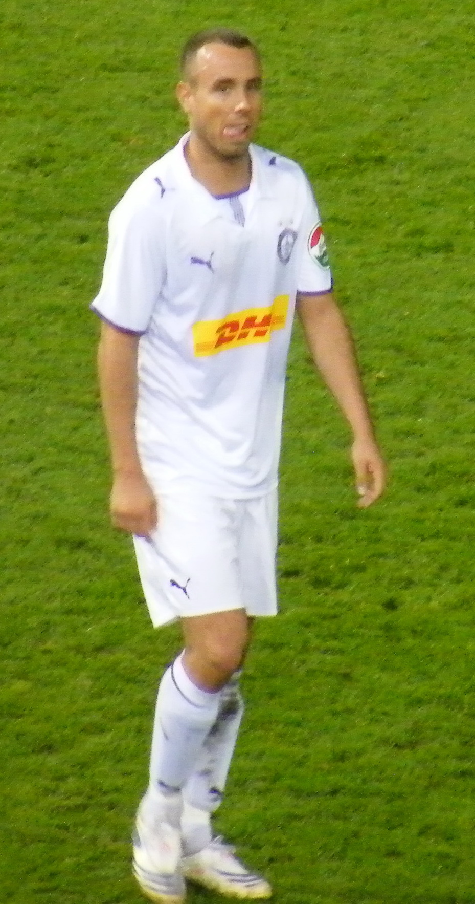 Gábor Bori Hungarian football player